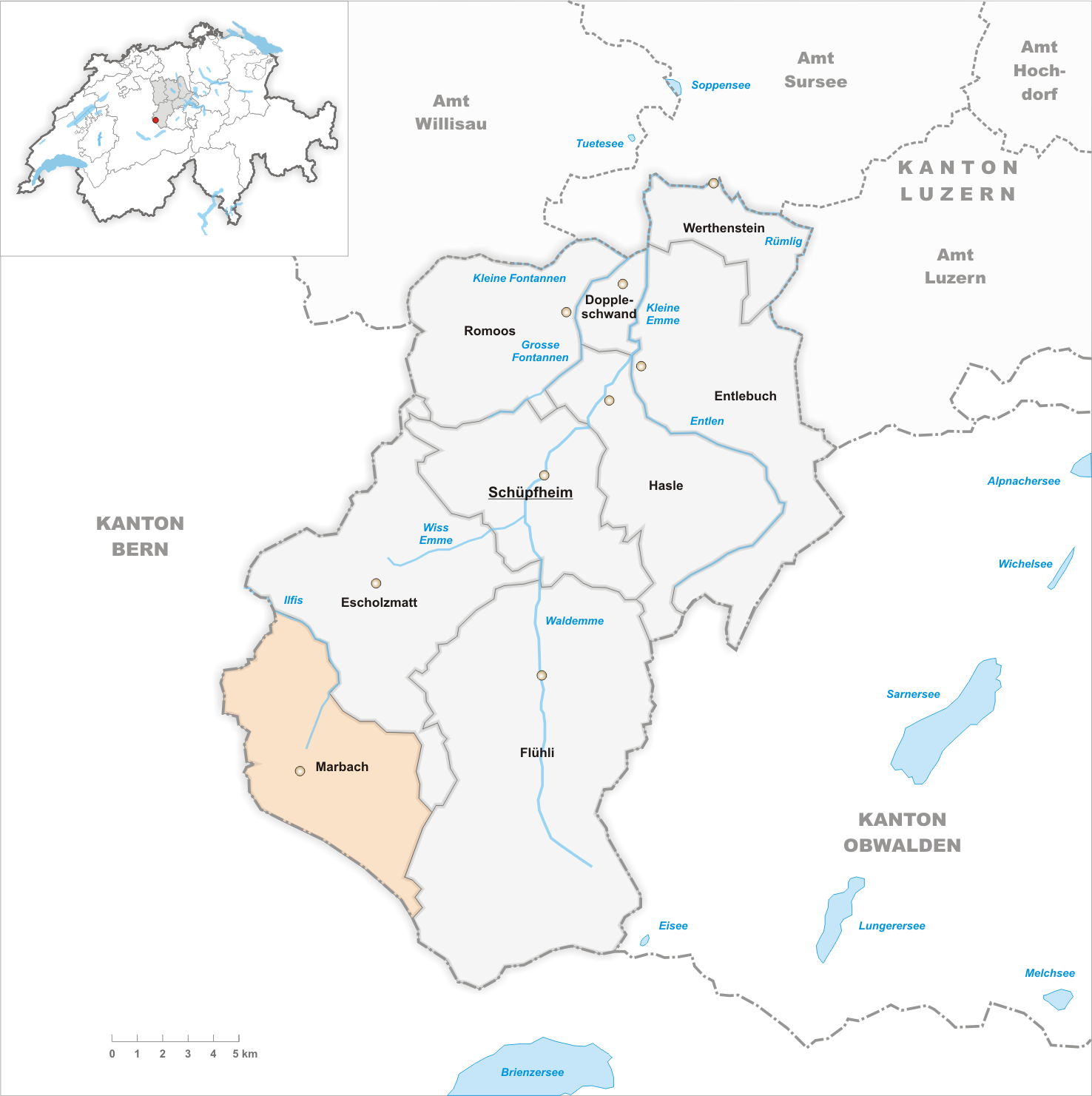 Municipality Marbach